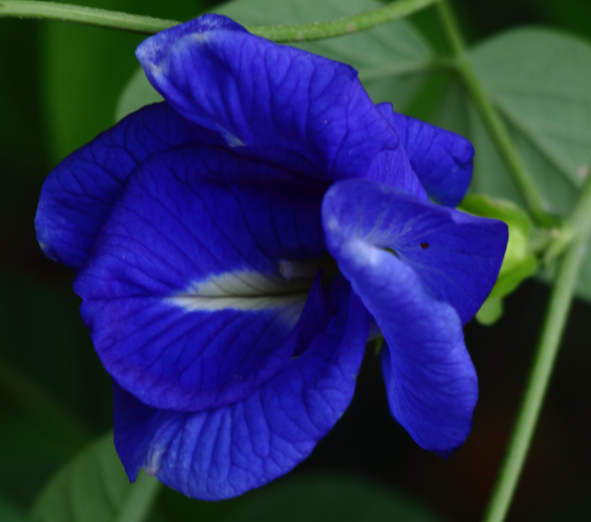 அடுக்கு சஙுகு flower, More popular is single petal. This multilayer flower is more beautiful and is used as natural dye